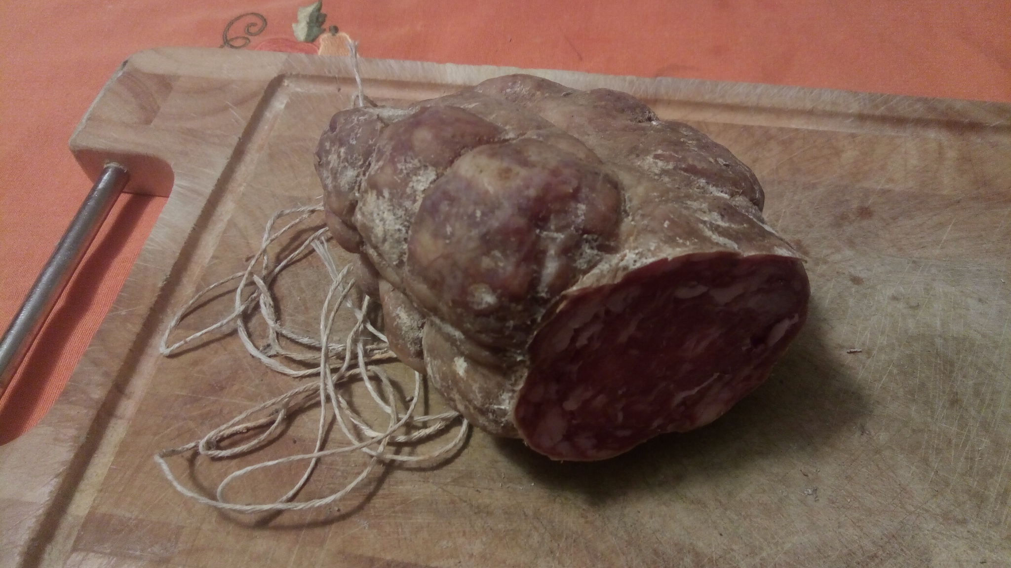 Mariola ham